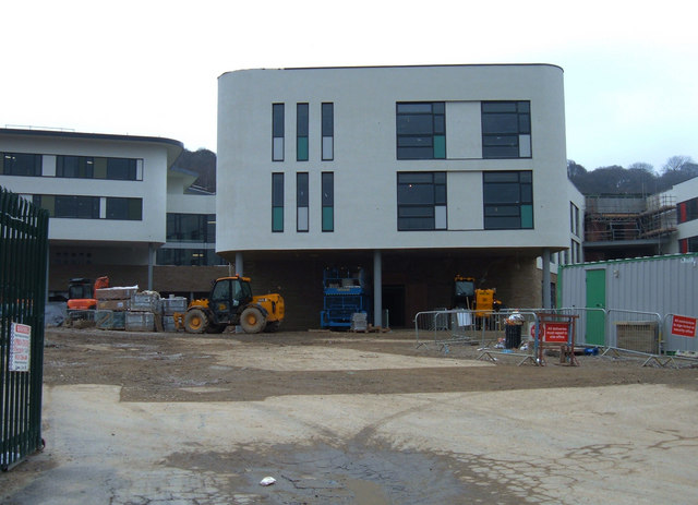 Salt Grammar School, Saltaire. Here the third grammar school to be built in about 150 years is under construction next to the second one (opened in 1963) on Higher Coach Road. The one being replaced can be seen here 727228.